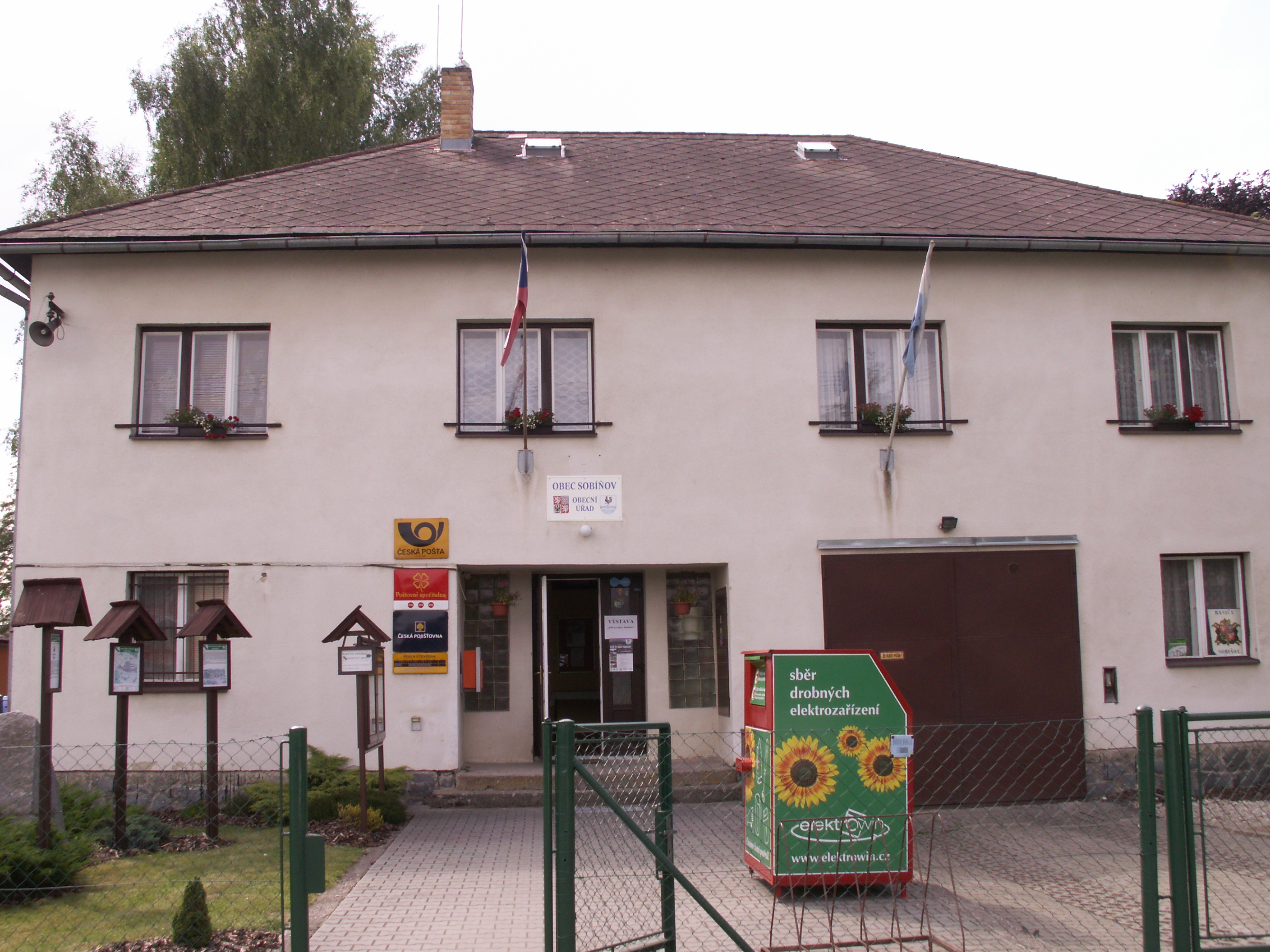 KONICA MINOLTA DIGITAL CAMERA, Sobíňov, okres Havlíčkův Brod, kraj Vysočina